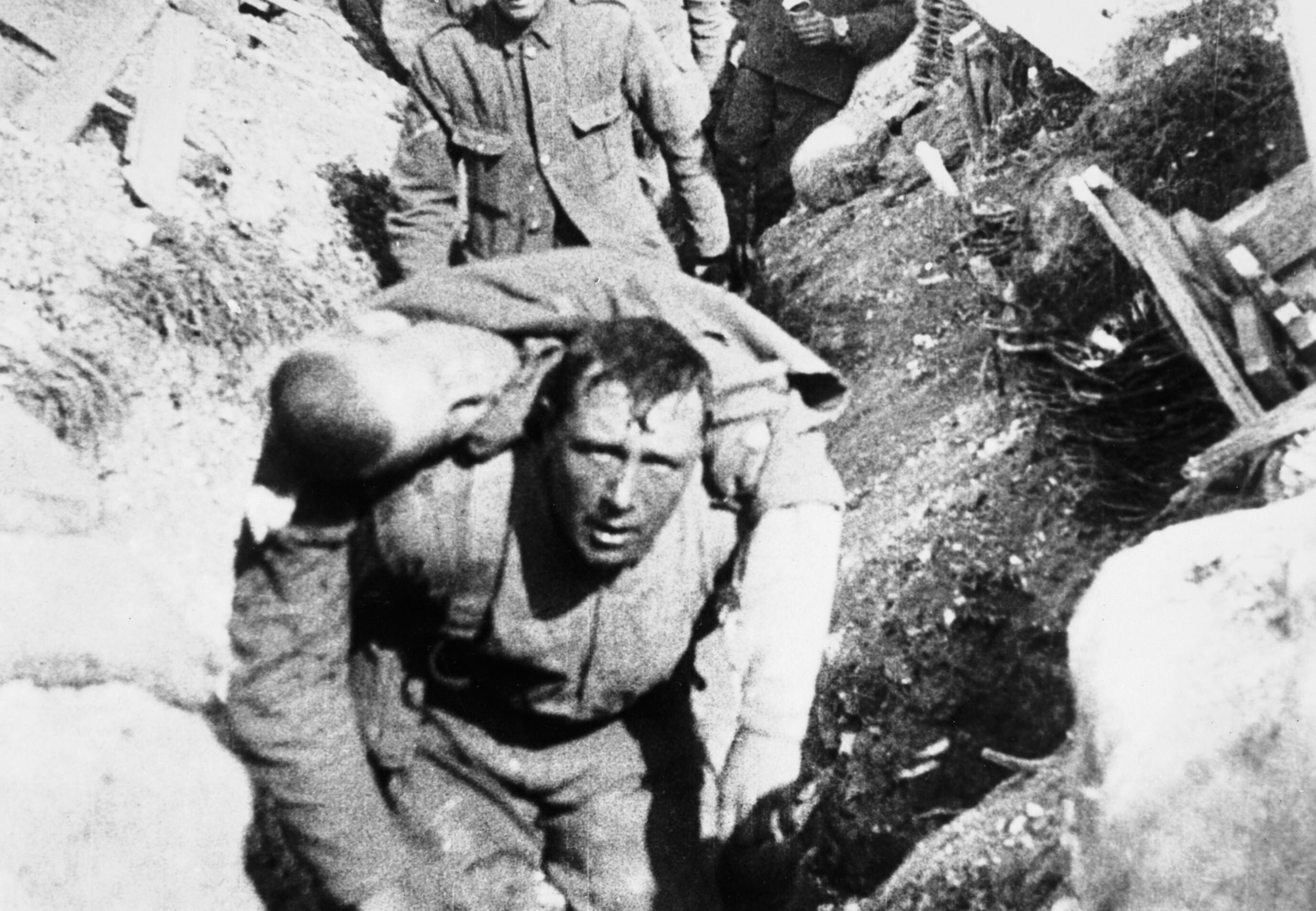 Still image from The Battle of the Somme showing a wounded soldier being carried through a trench. The accompanying title frame read:British Tommies rescuing a comrade under shell fire. (This man died 30 minutes after reaching the trenches.)